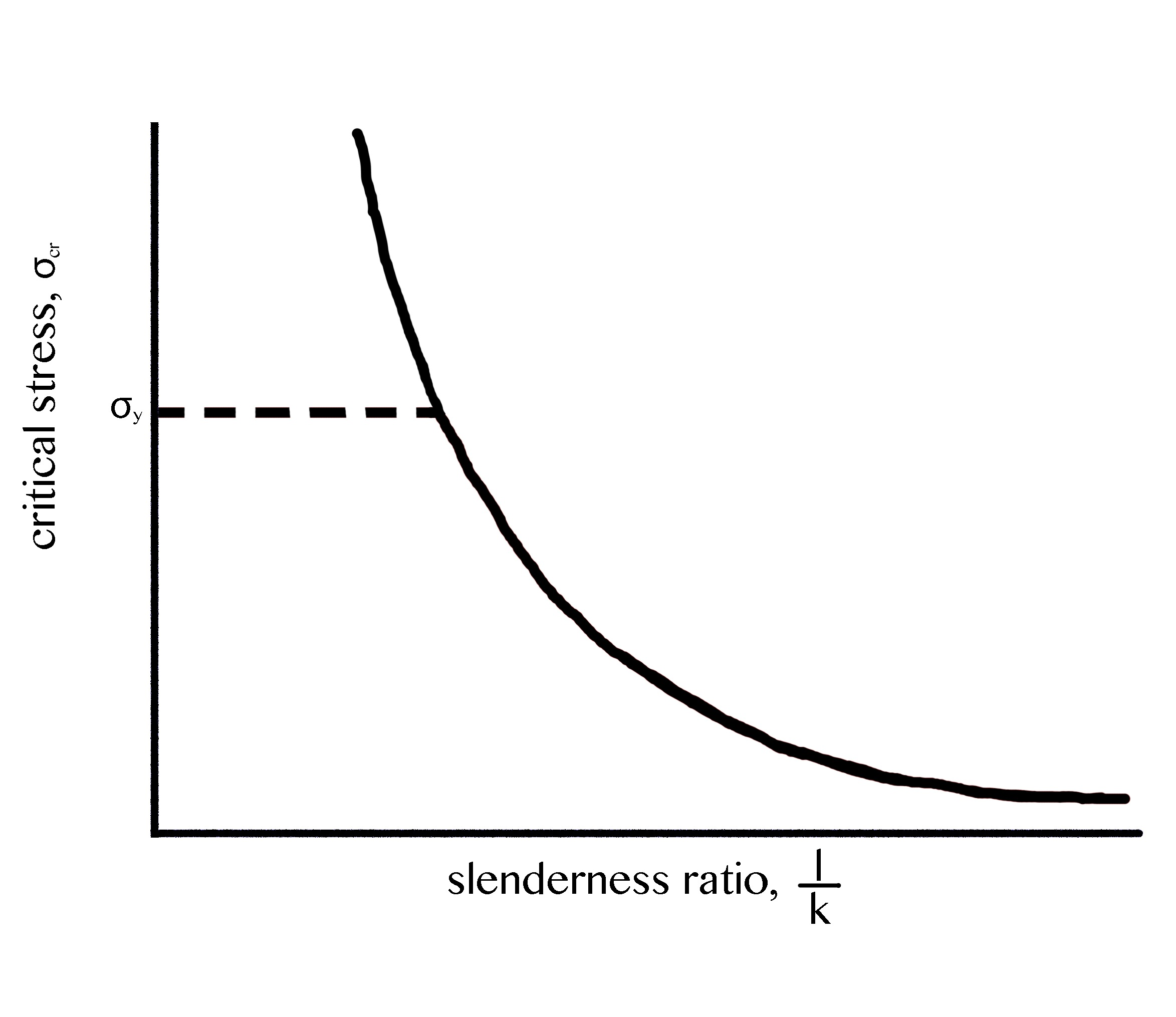 Unit-less depiction of the Euler curve for critical stress and slenderness ratio